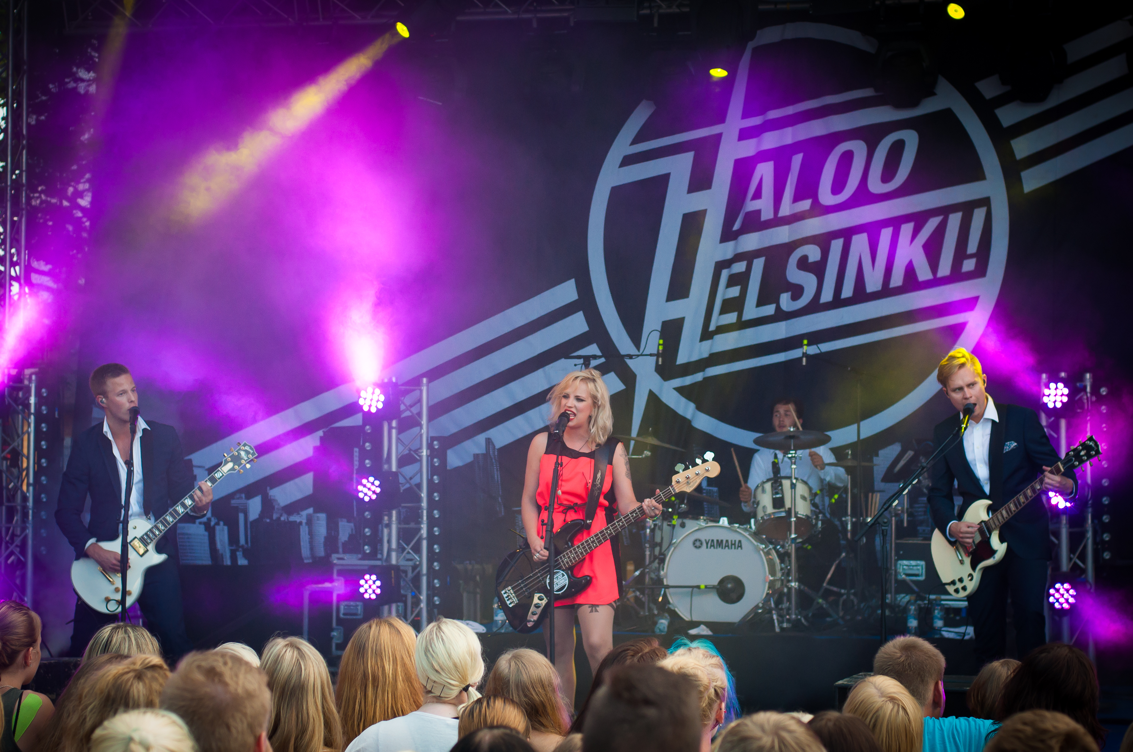 Finnish rock band Haloo Helsinki! performing at the 2014 Rakuuna Rock festival in Lappeenranta, Finland.